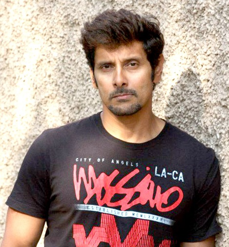 Chiyaan Vikram snapped in Mumbai